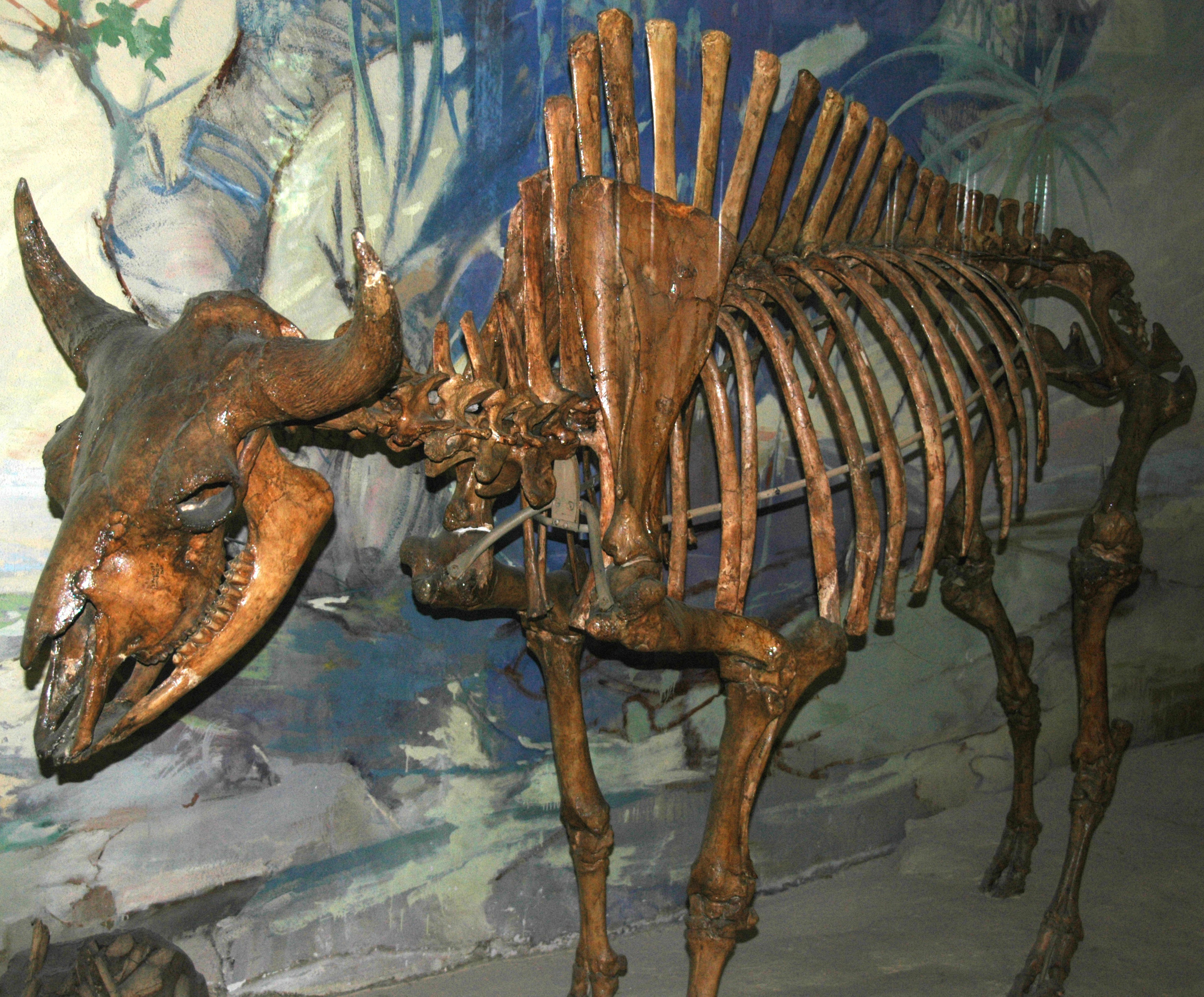 Bison antiquus taylori Hay & Cook, 1928 fossil buffalo skeleton (real) from the Upper Pleistocene of Nebraska, USA (public display, Nebraska State Museum of Natural History, Lincoln, Nebraska, USA). The ancient bison (a.k.a. Ice Age bison) had a slightly larger body & horns compared with the modern American buffalo (Bison bison). Bison antiquus is the inferred ancestral species to modern Bison bison. Classification: Animalia, Chordata, Vertebrata, Mammalia, Artiodactyla, Bovidae Locality: Scotts Bluff County, western Nebraska, USA